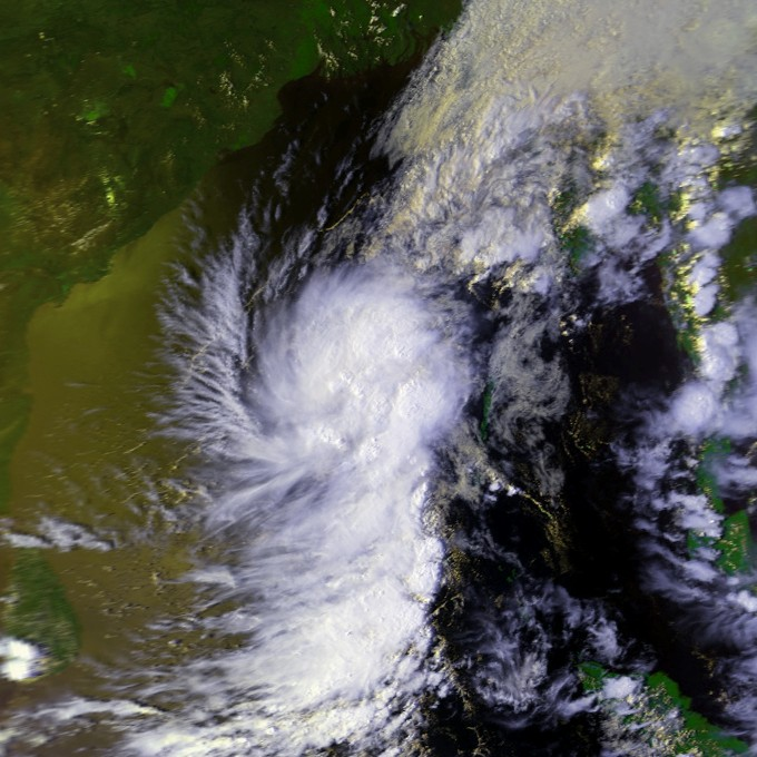 A tropical depression in the Bay of Bengal on March 29 at 0824 UTC. This image was produced from data from NOAA-14, provided by NOAA. Maximum sustained winds were about 30 mph at the time.